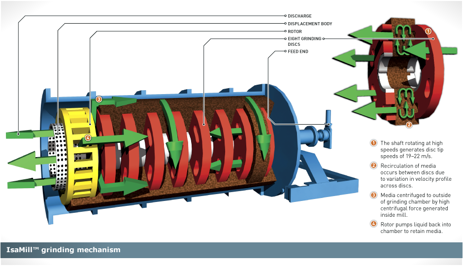 This drawing provides a schematic view of the inside of an IsaMill, including showing the flow patterns of the grinding medium and the slurry particles that are being ground.